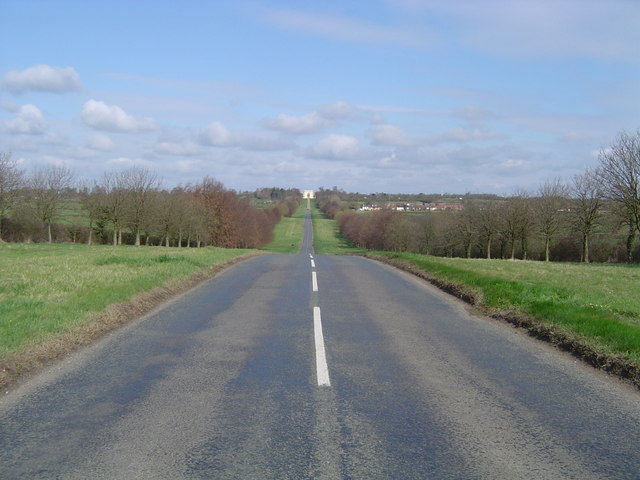 Stowe Avenue. Looking towards the Corinthian Arch 152775 with Chackmore village to the right.